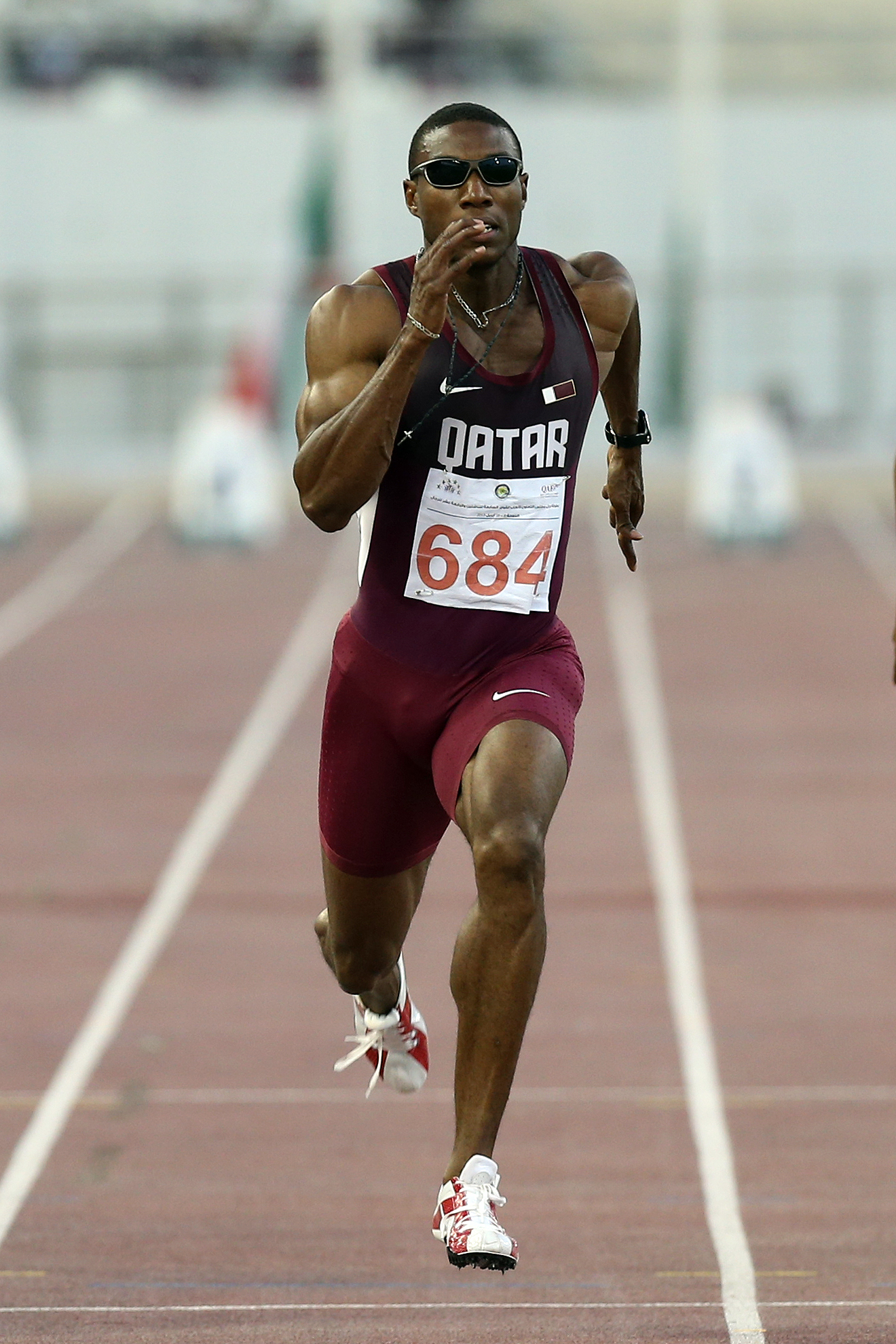 Qatar's Samuel Francis Adelebari wins the GCC 100M sprint tile in Doha. Picture by Vinod Divakaran